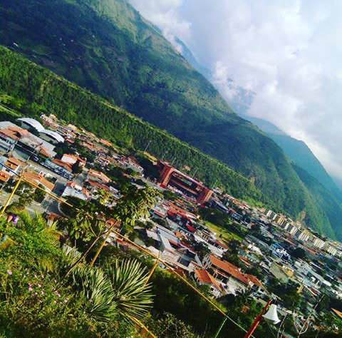 Vista del sur de la ciudad